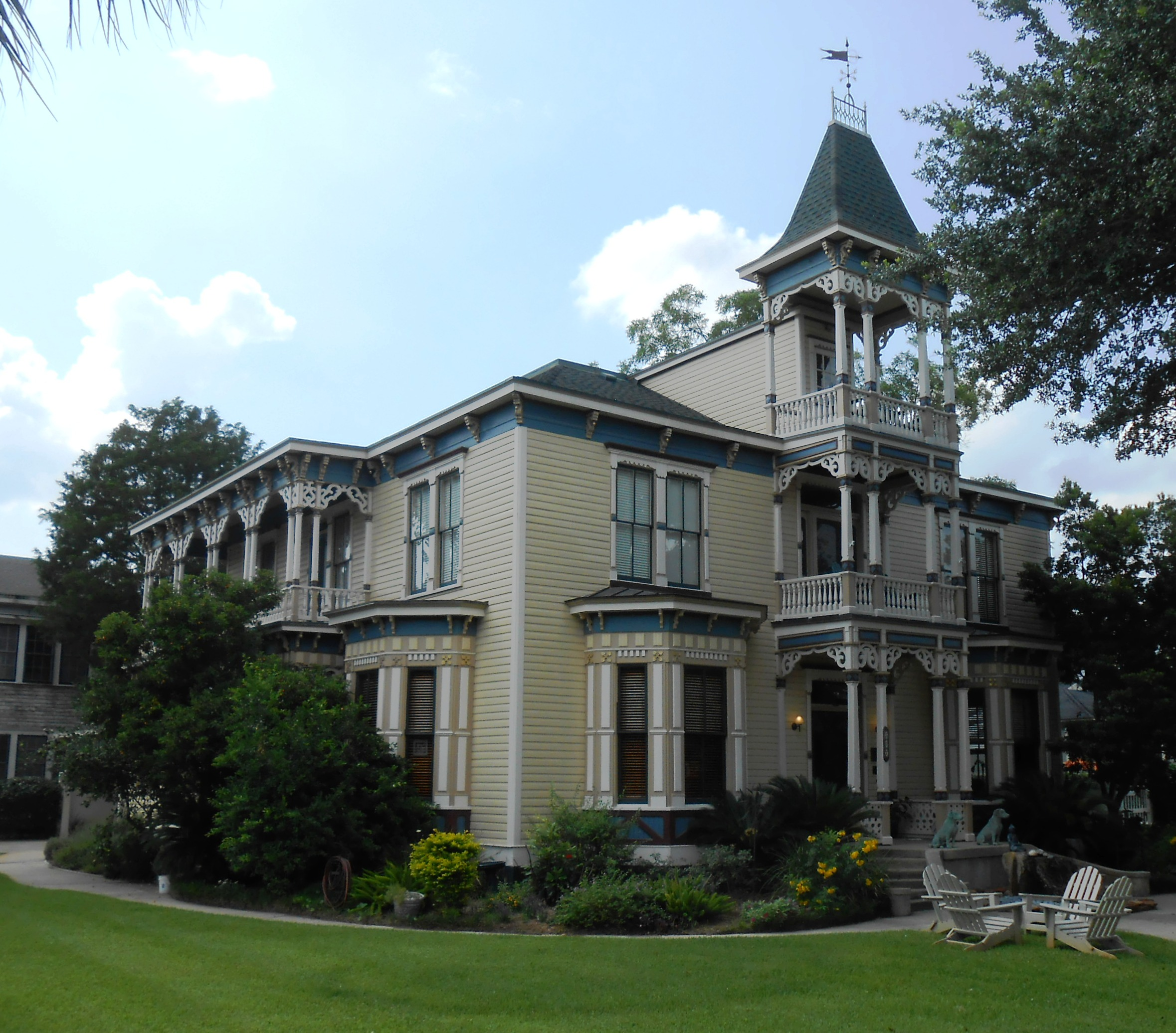 D.H. Regan House, 507 S. DeLeon Street, Victoria, Texas